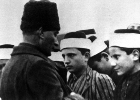 M. Kemal Atatürk and madrasa students in Konya, March 22, 1923